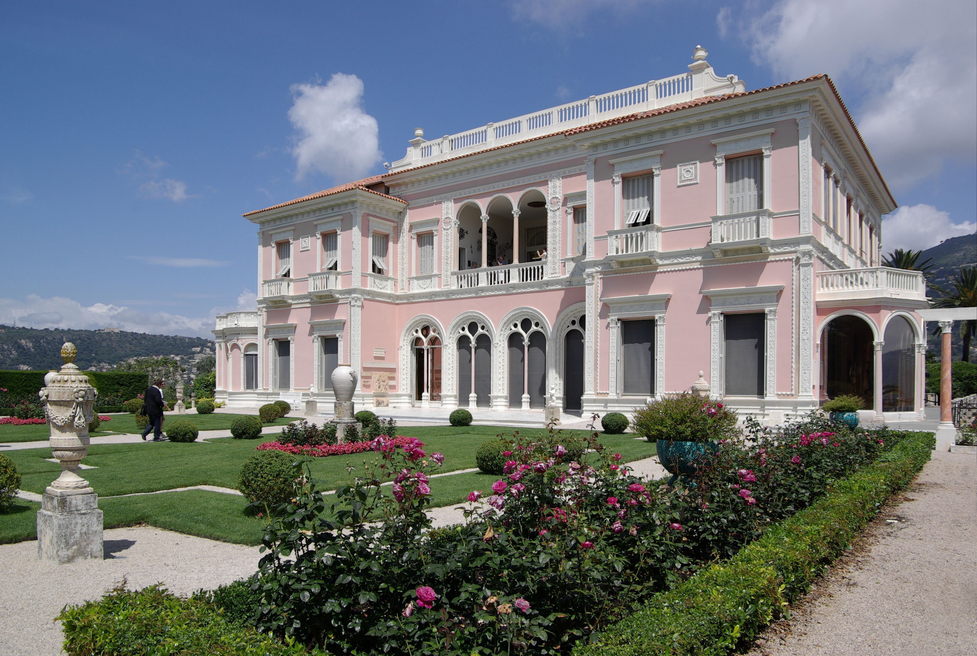 Villa Ephrussi de Rothschild